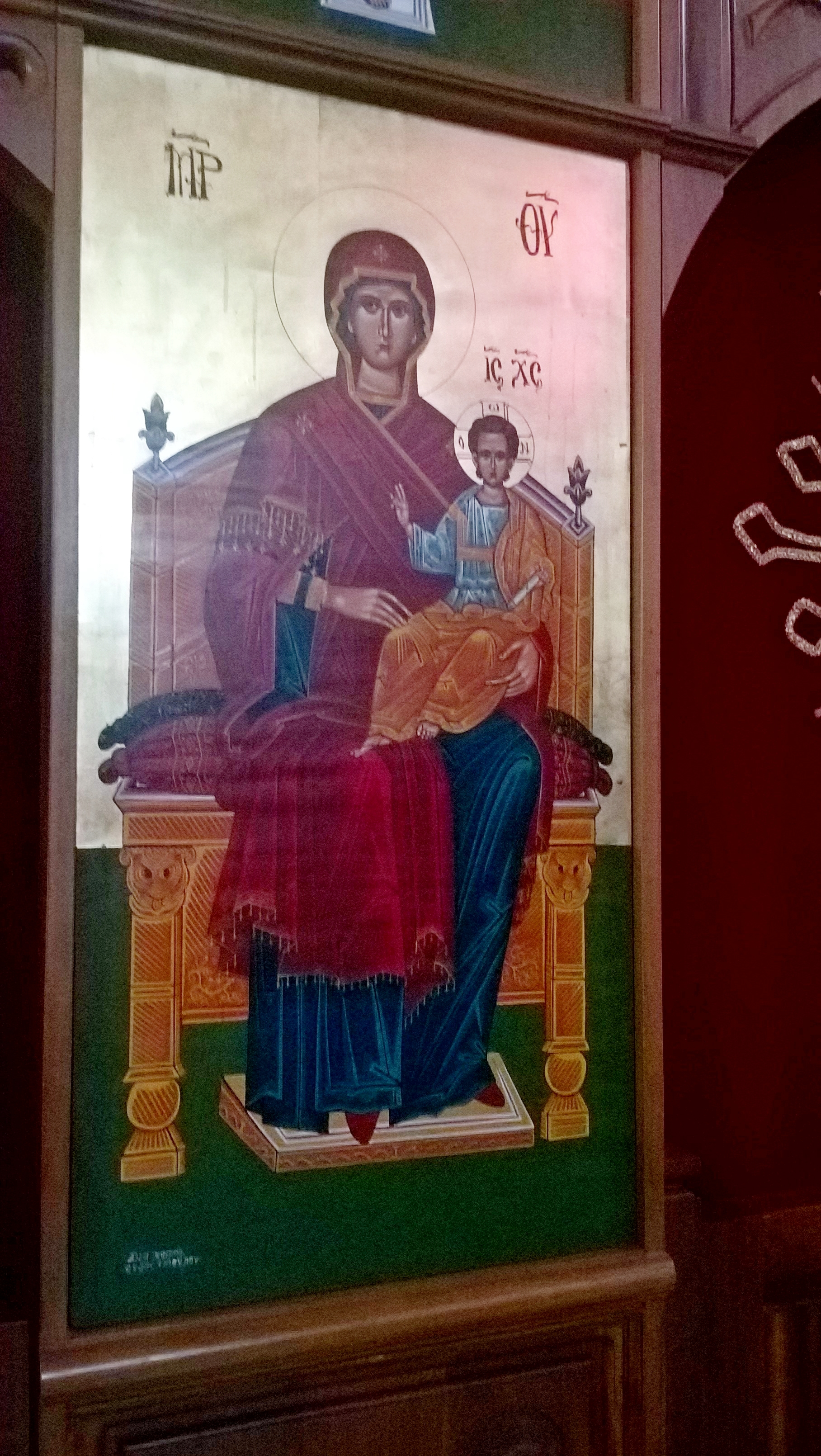 Icon of the North Door